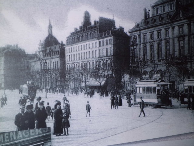 Rouen, beginning of the 20th century